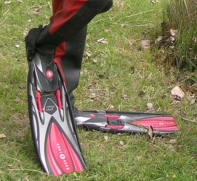 Slingshot fins by Aqua Lungs